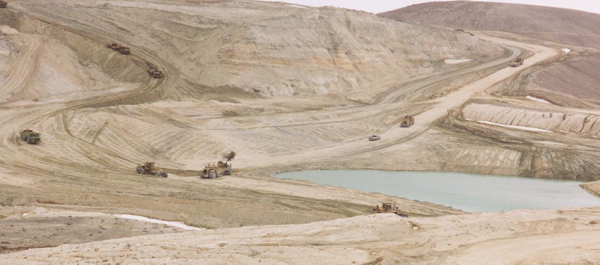 Sunset uranium mine in Wyoming, now in the process of being reclaimed. The reclamation includes the mitigation of surface and underground hazards including highwalls, pits, open shafts, spoil piles and substandard water. The goal is to eliminate hazards to public health and safety, and control environmental degradation, while being sensitive to public concerns and landowner issues.